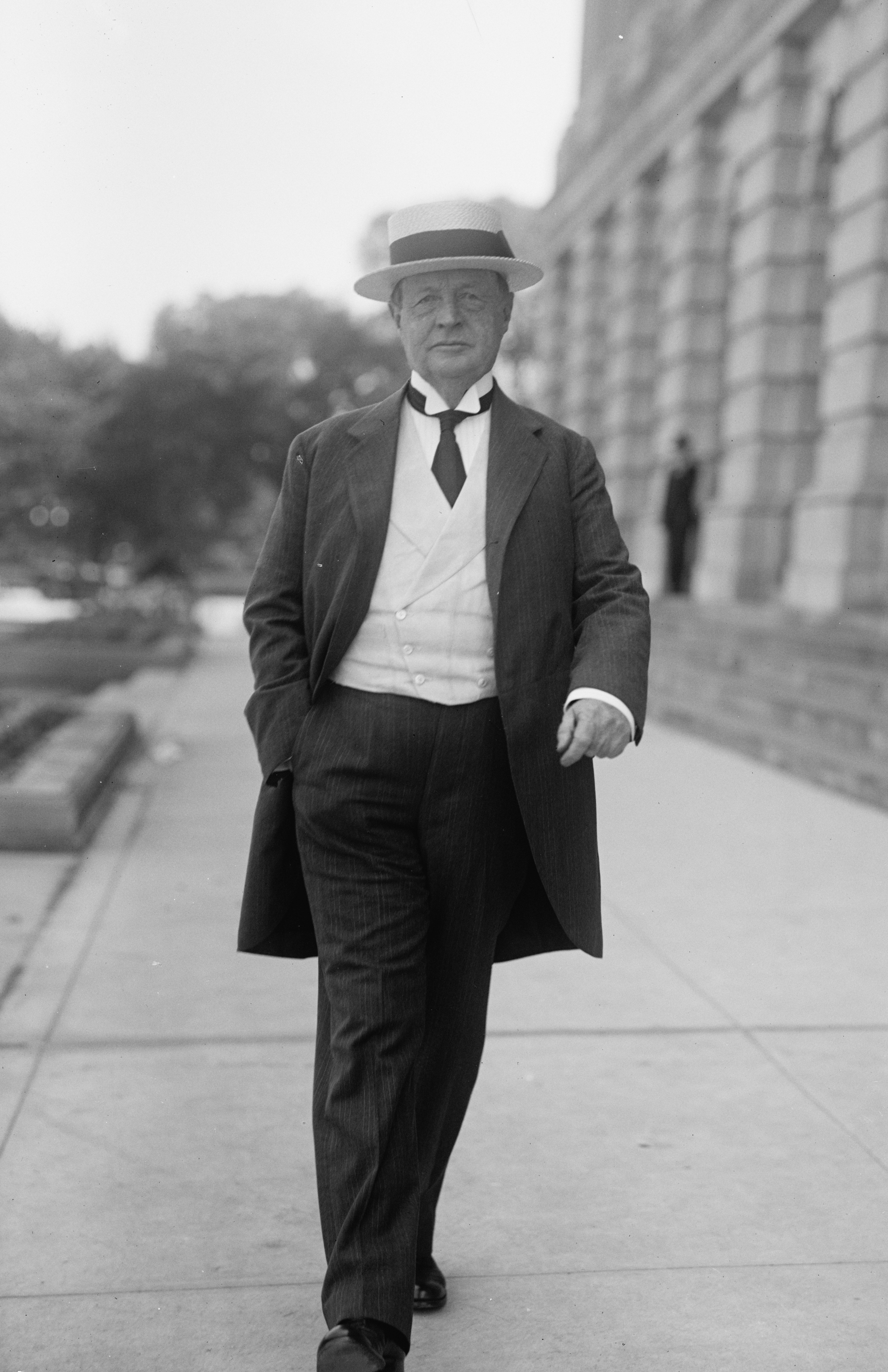 Title: NEWLANDS, FRANCIS G., SENATOR Abstract/medium: Harris & Ewing photograph collection Physical description: 1 negative